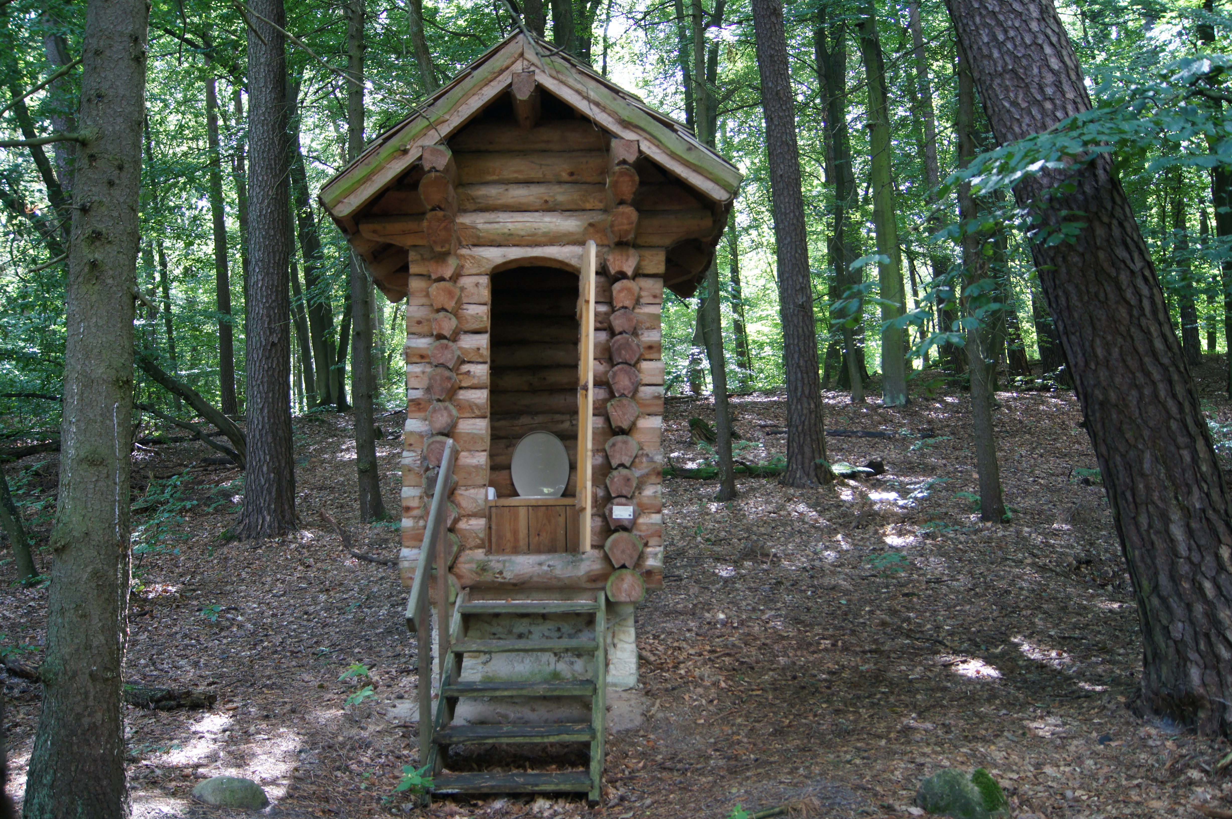 Outhouse at forester's lodge Eduardspring in Frankfurt (Oder), Brandenburg, Germany